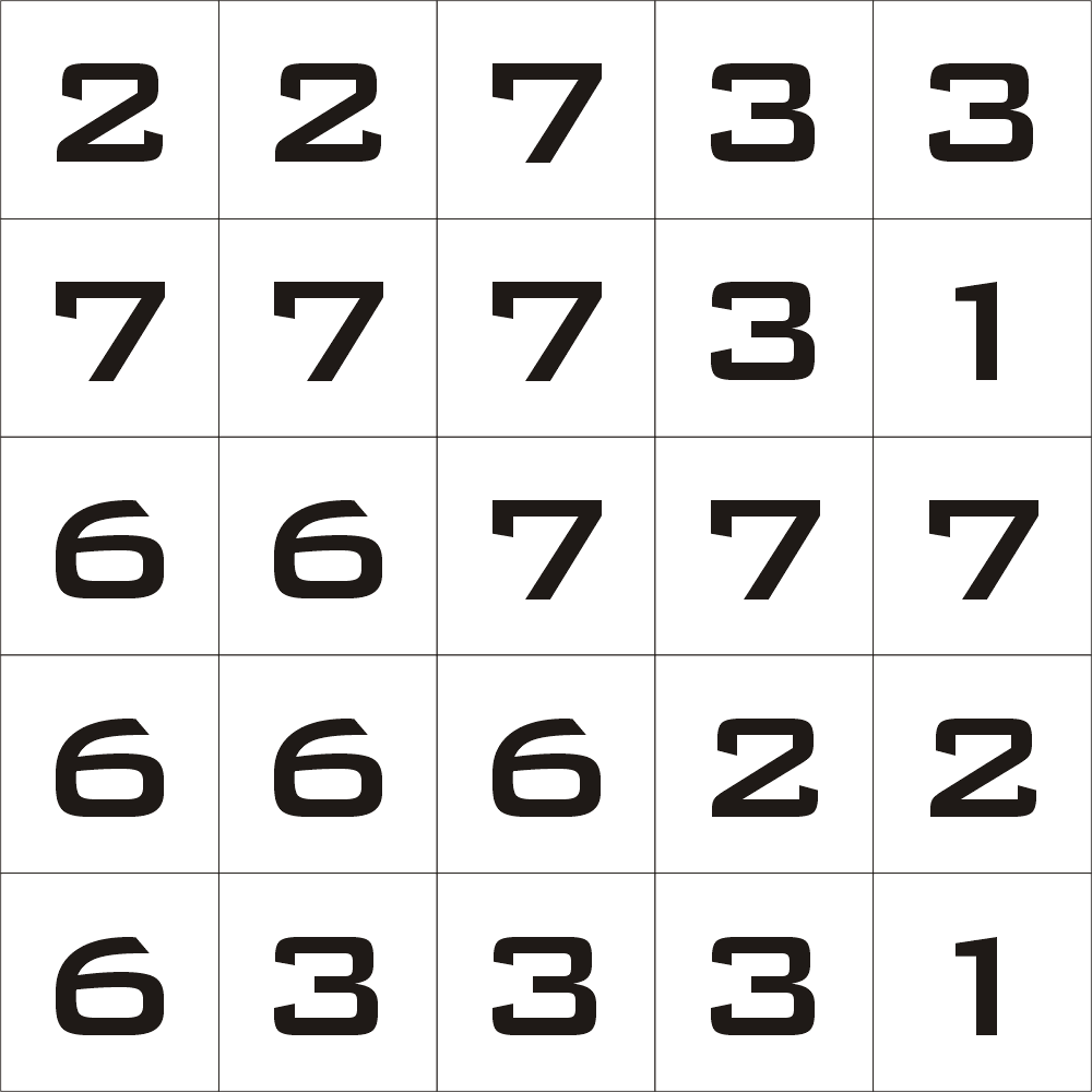 Solution of a Fillomino.